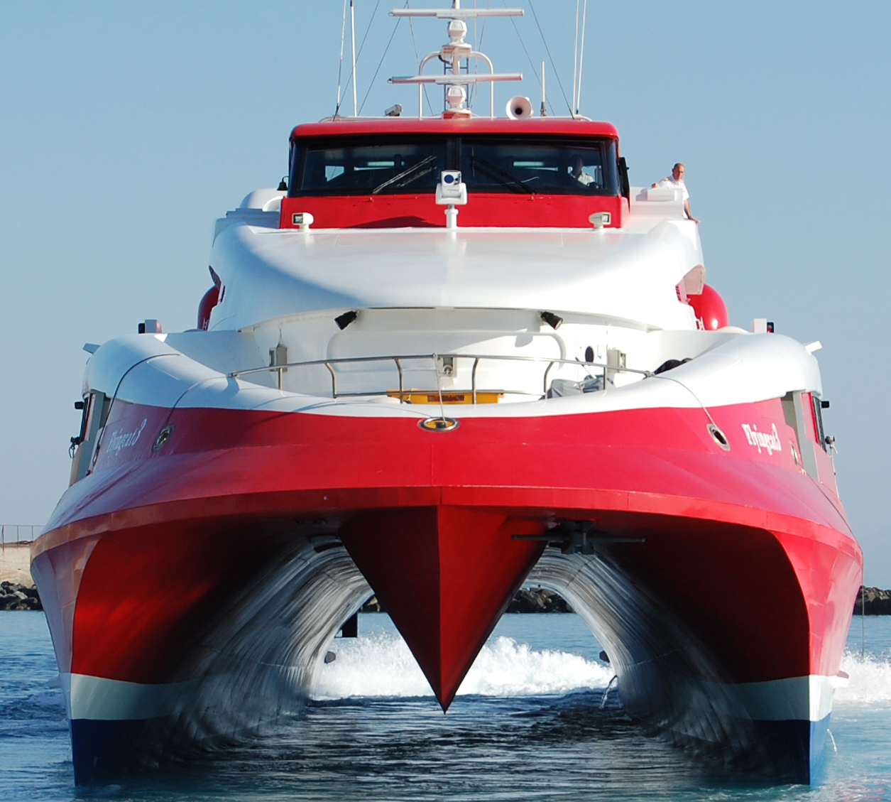 Flyingcat 3, Hellenic Seaways, IMO 9177442